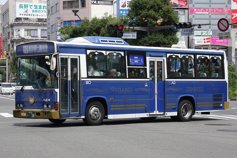 Kawanakajima Bus's Route Bus "Binzuru 1-go" (Hino Rainbow P-RJ172CA / Hino body) at Nagano Station Zenkoji Exit, Nagano, Nagano, Japan.